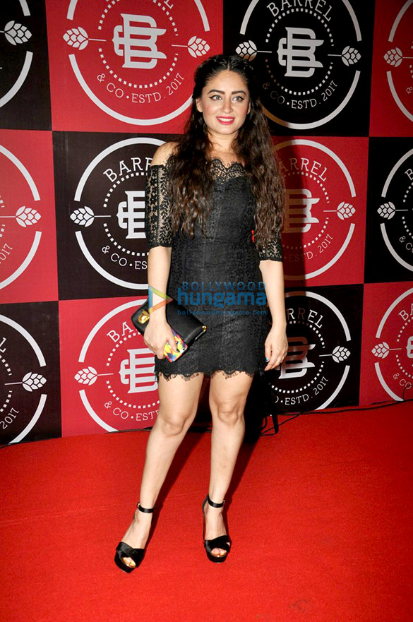 Mahhi Vij grace the Barrel & Co launch